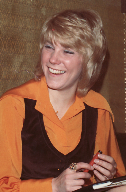 2 to 3 crop of Anne Murray, c. 1971 (per CBC)